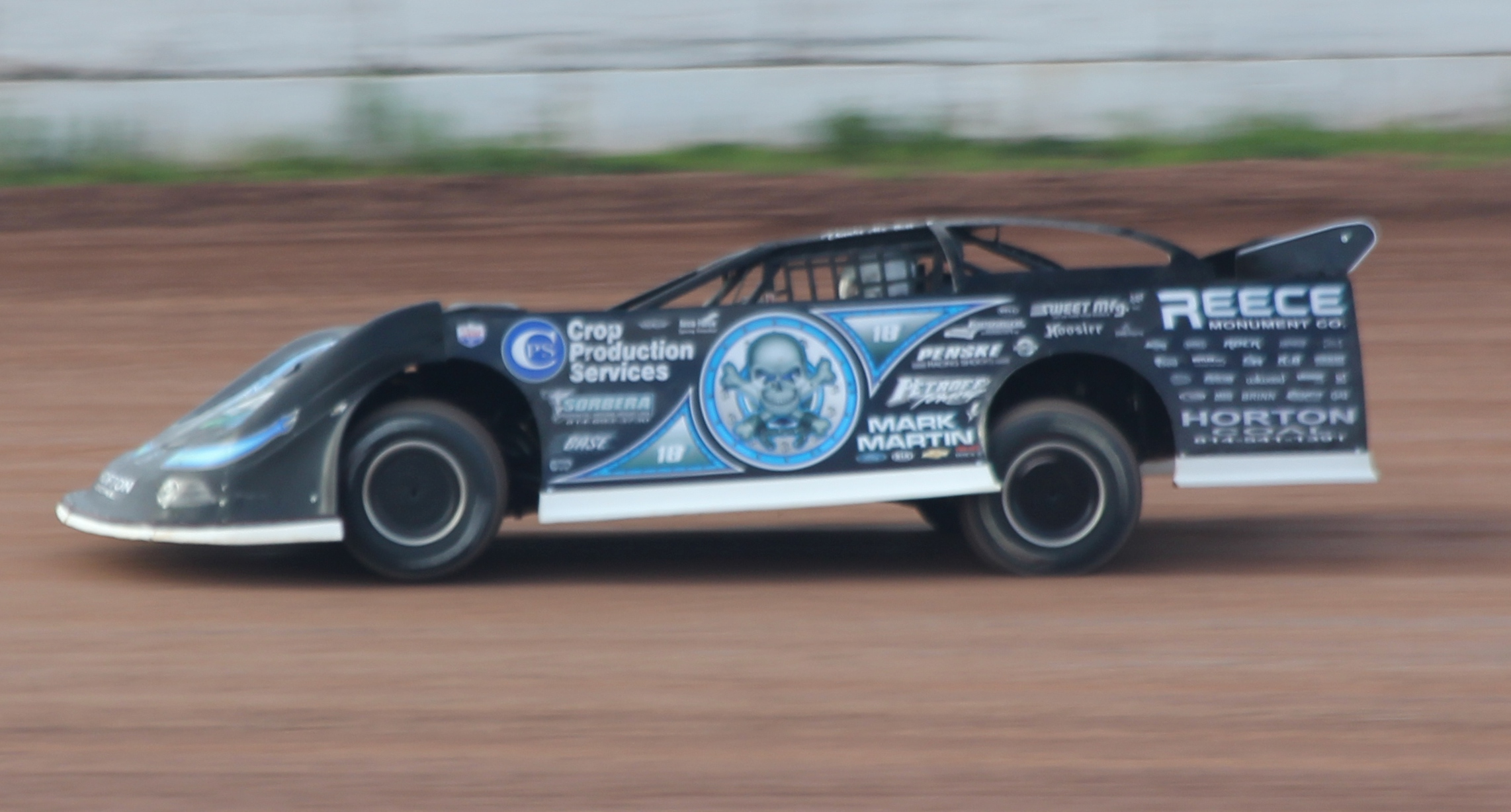 The Lucas Oil Late Model Dirt Series car #0 of Scott Bloomquist at the Oshkosh Speedzone on the Sunnyview Expo Center grounds.